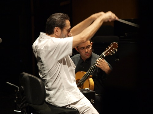 Foto de Leo Brouwer dirigiendo la orquesta de Córdoba en el Gran teatro de Córdoba y de fondo Javier Riba.